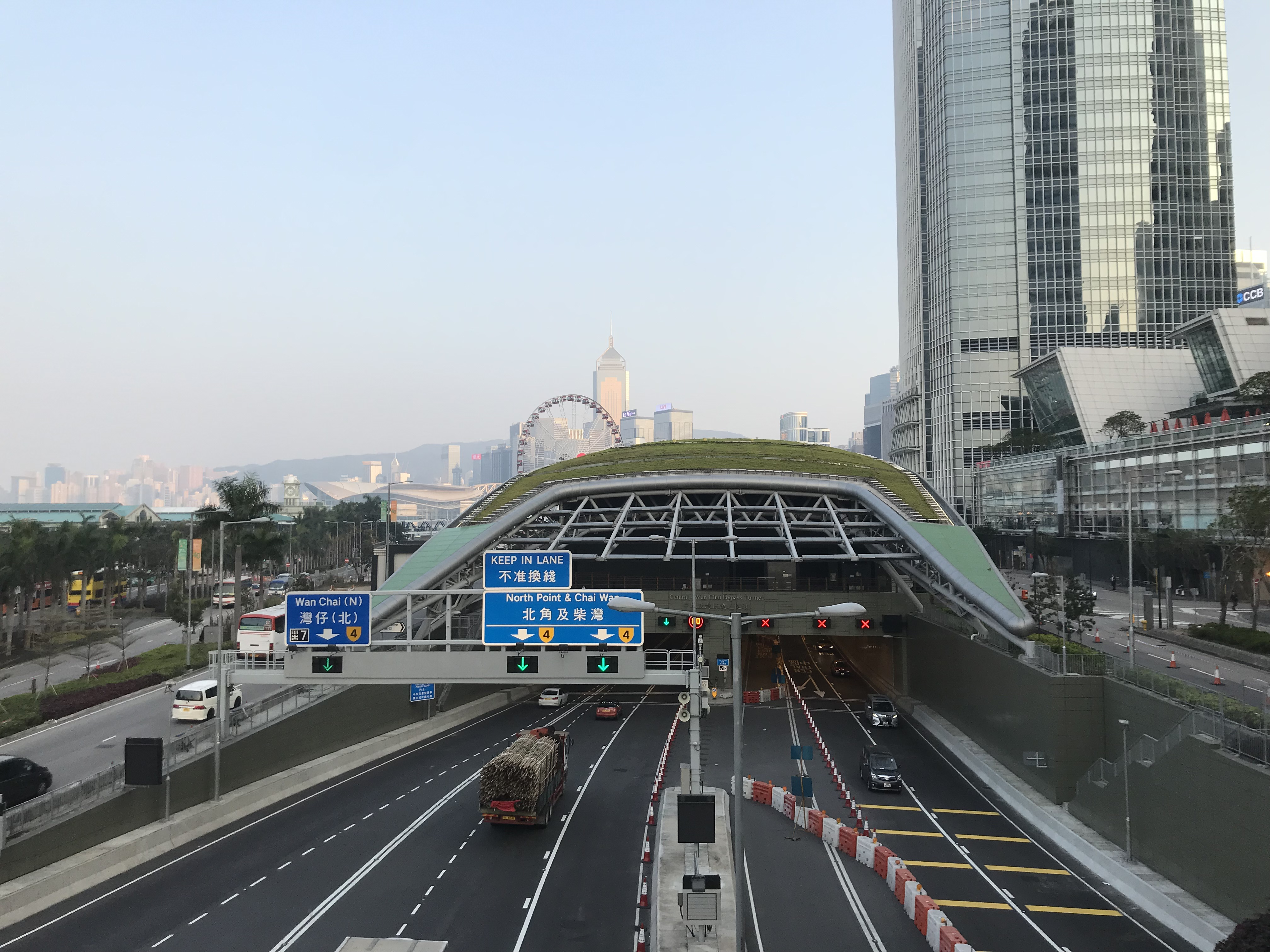 The Central–Wan Chai Bypass Tunnel's western portal shortly after opening, from the footbridge between Central ferry pier 3 and the IFC Mall.